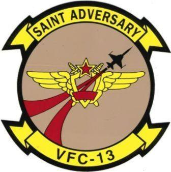 Emblem of the U.S. Navy fighter composite squadron VFC-13 Saints.